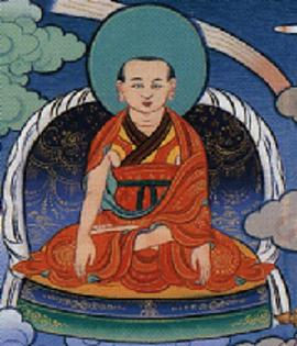 Patrul Rinpoche tibetian yogi